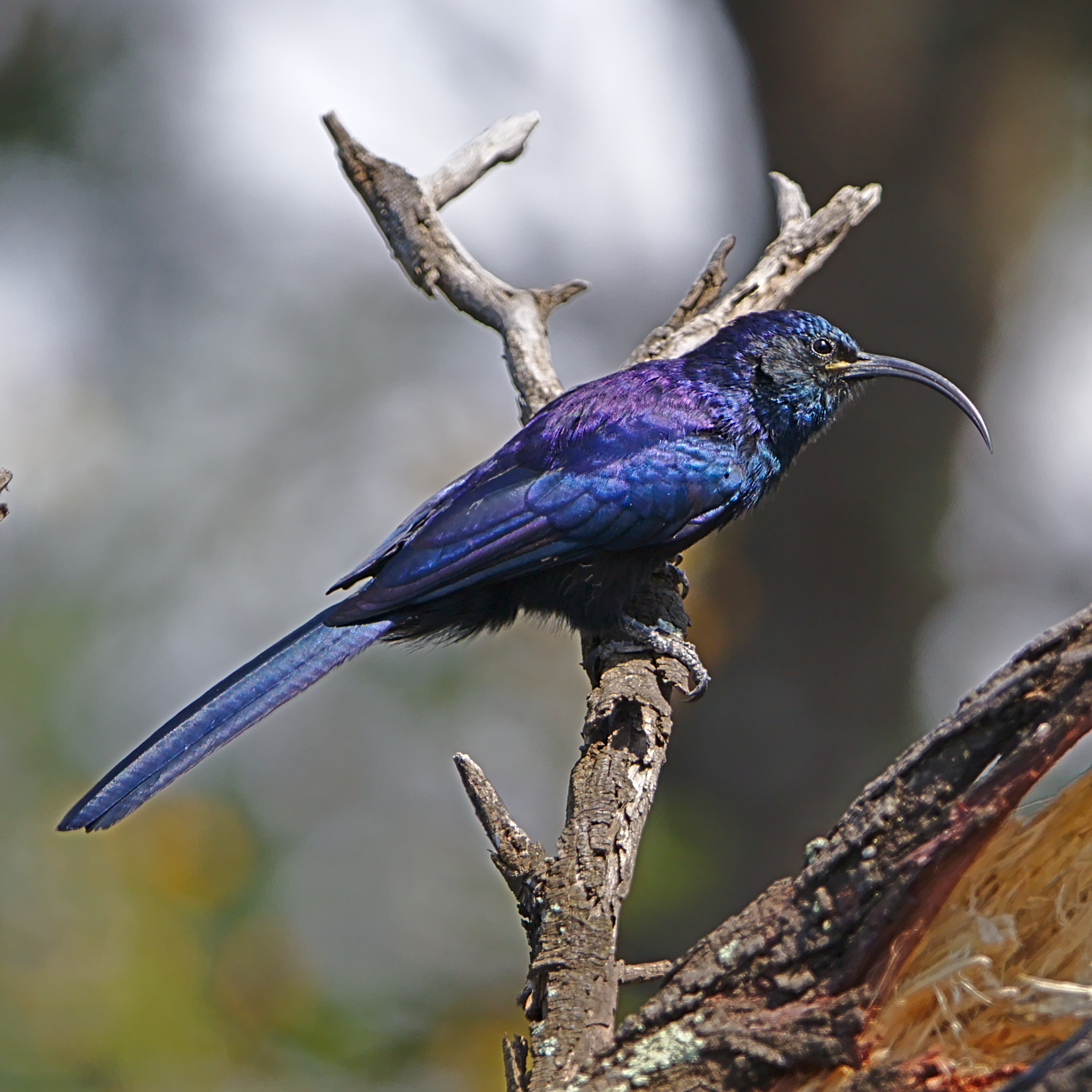 After years of trying to get one of these beautiful birds out in the sunshine, I finally managed yesterday. Generally they just look black, with a black bill, but when they are in full sun, with the light shining in the right direction, their refractive colours stand out in 50 shades of purple.